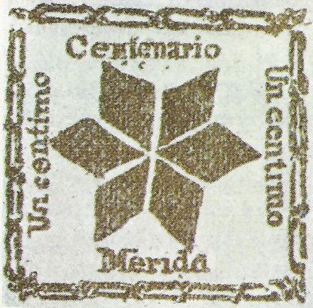 Venezuela - Merida local stamp